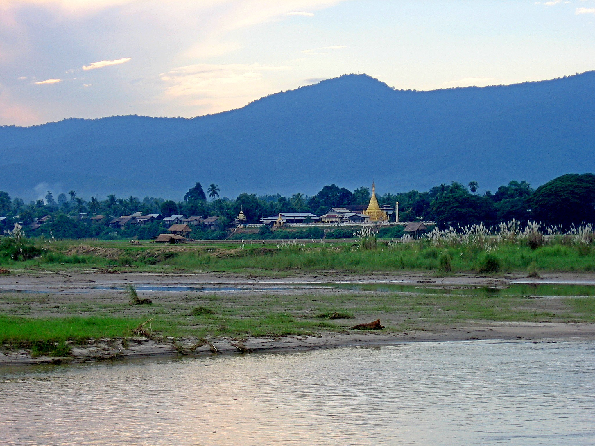 Ayeyarwady River between Bhamo and Khata in Myanmar.